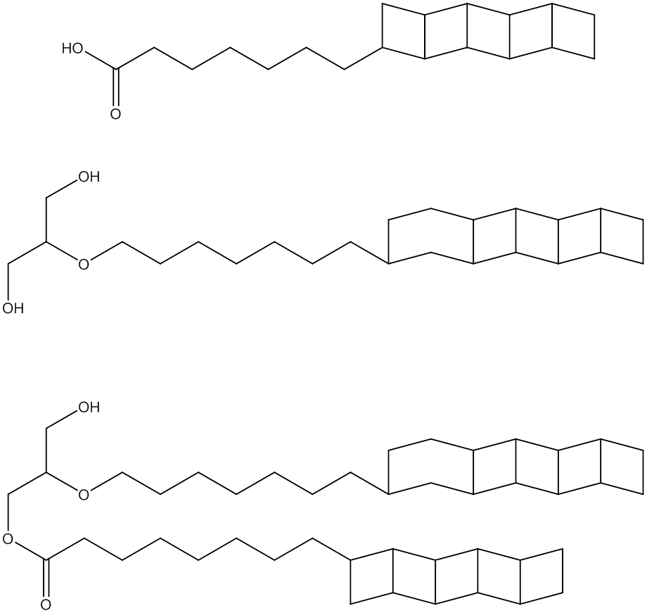 Ladderane lipids present in anammoxasomes.